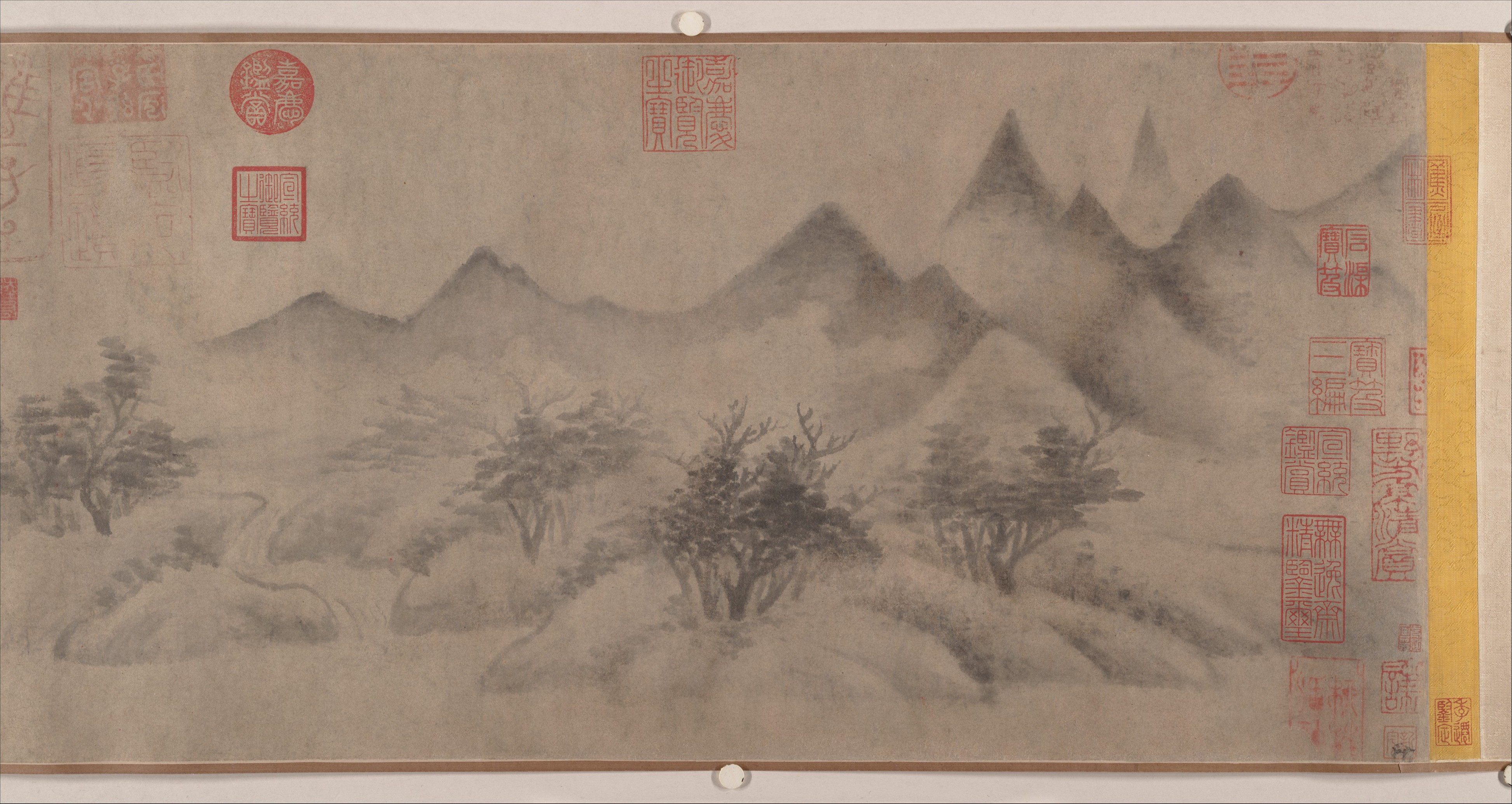 China; Handscroll; Paintings